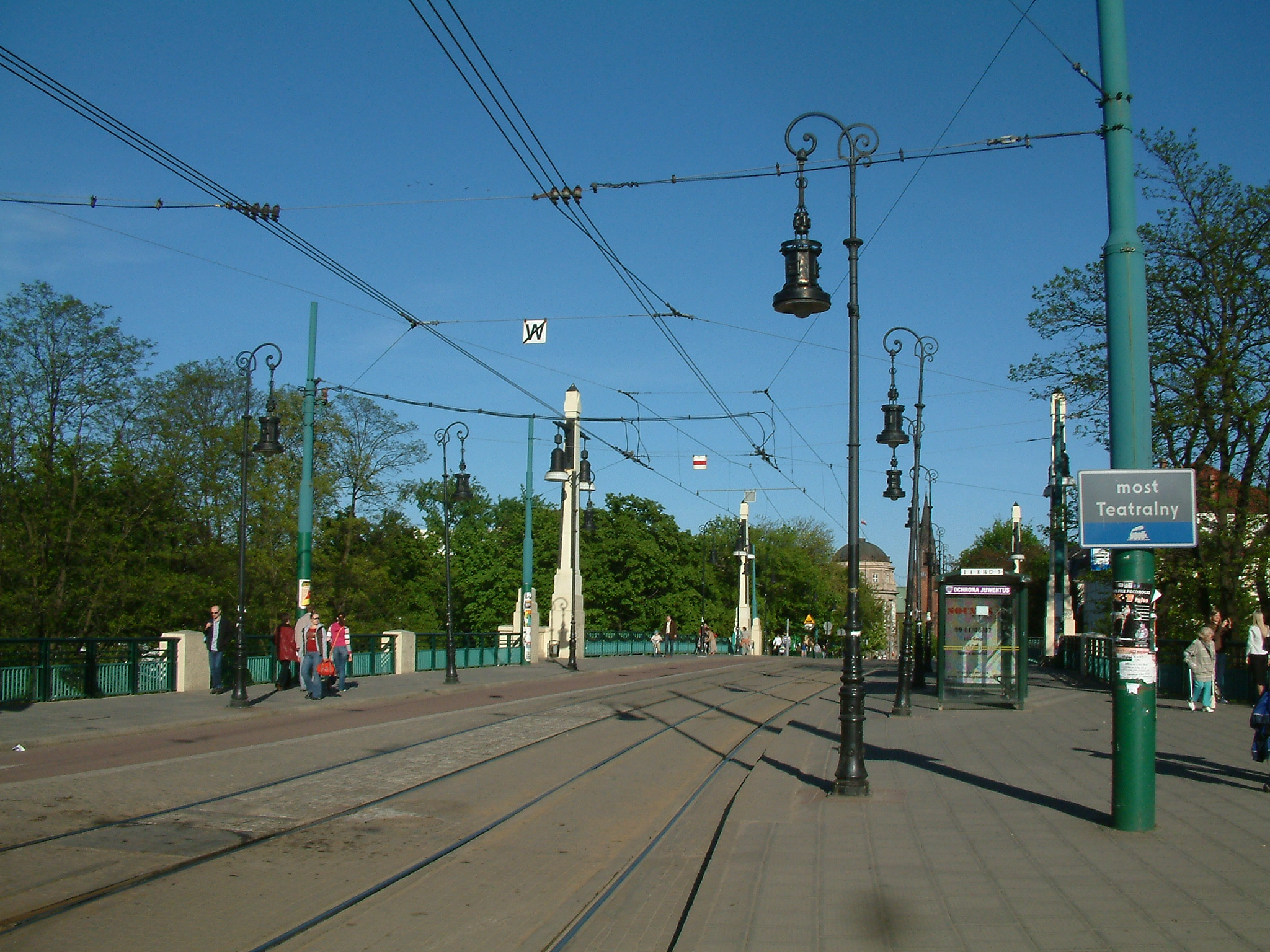 Theatre Bridge in Poznań